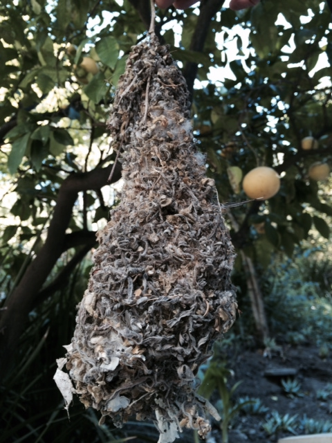 Nest of the Bushtit (Psaltriparus minimus). Bushtit is native to California and lives there all year round.